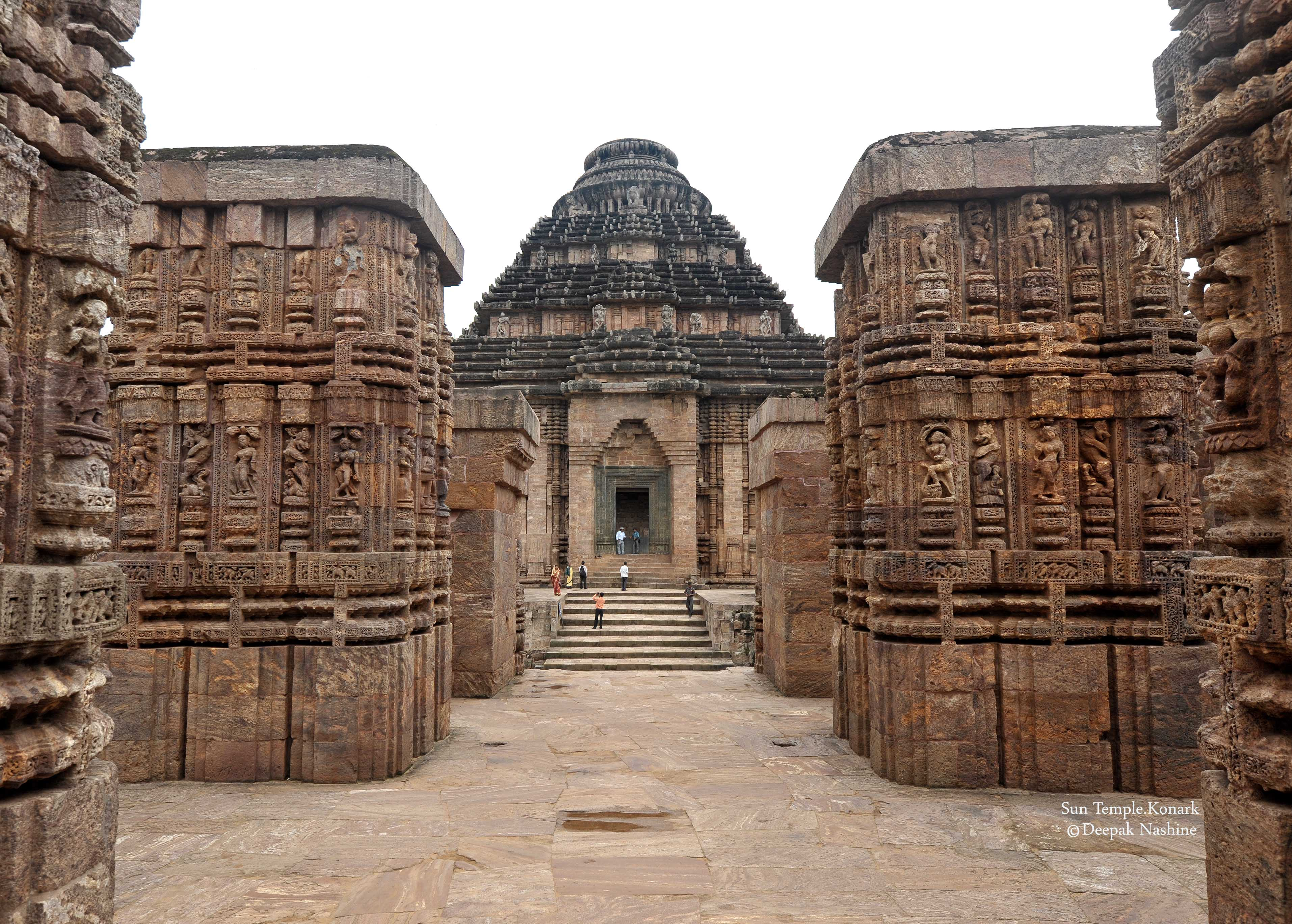 Sun Templelocated at Konark in orrisa state of India